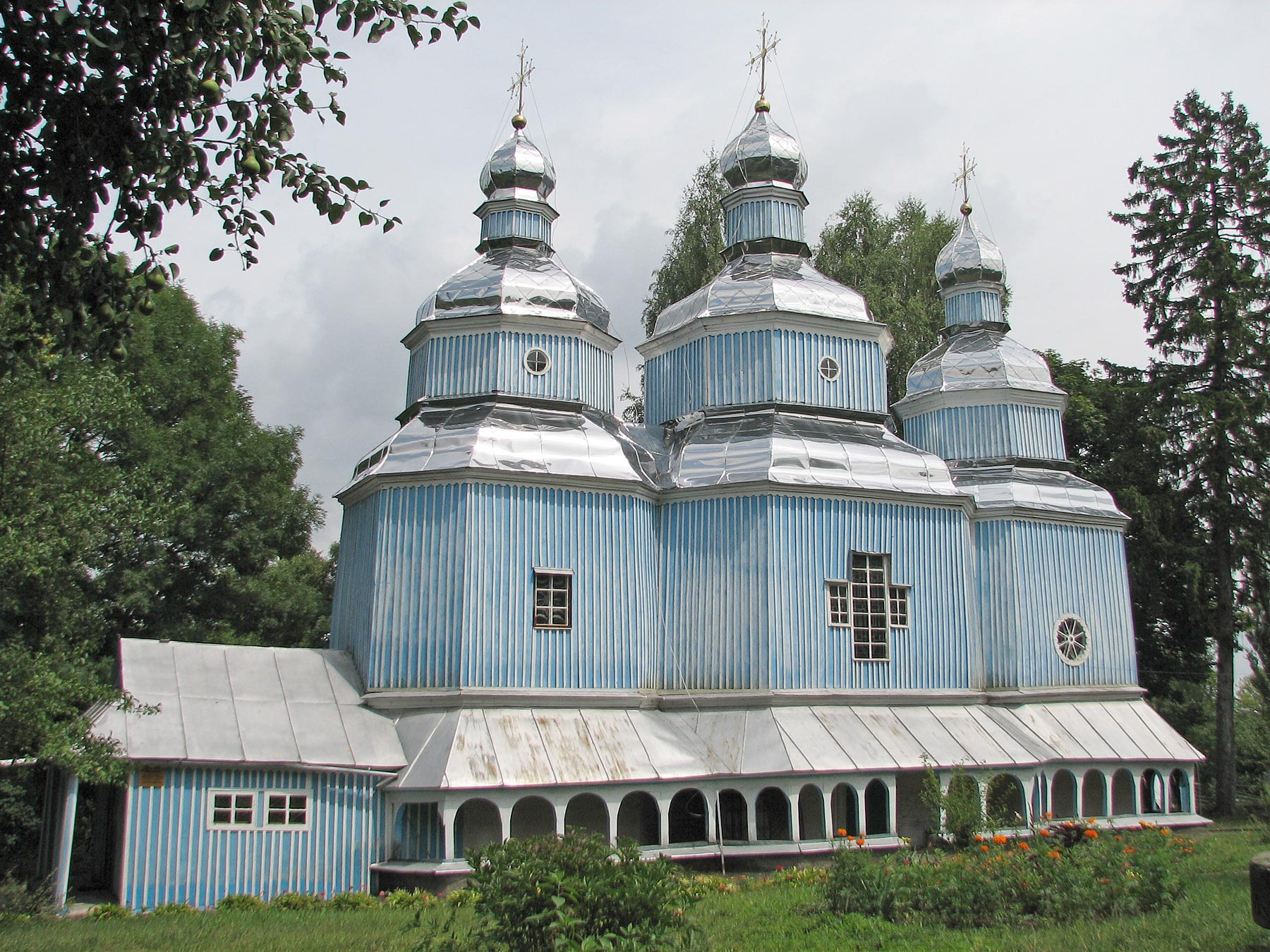 St Mykola's orthodox church in Vinnytsia, Ukraine